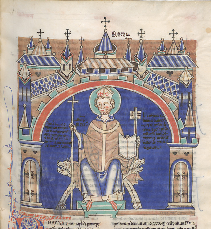 Image introducing an article on the history of papacy in Liber Floridus, folio 99. Ms made around 1260. Available on Gallica